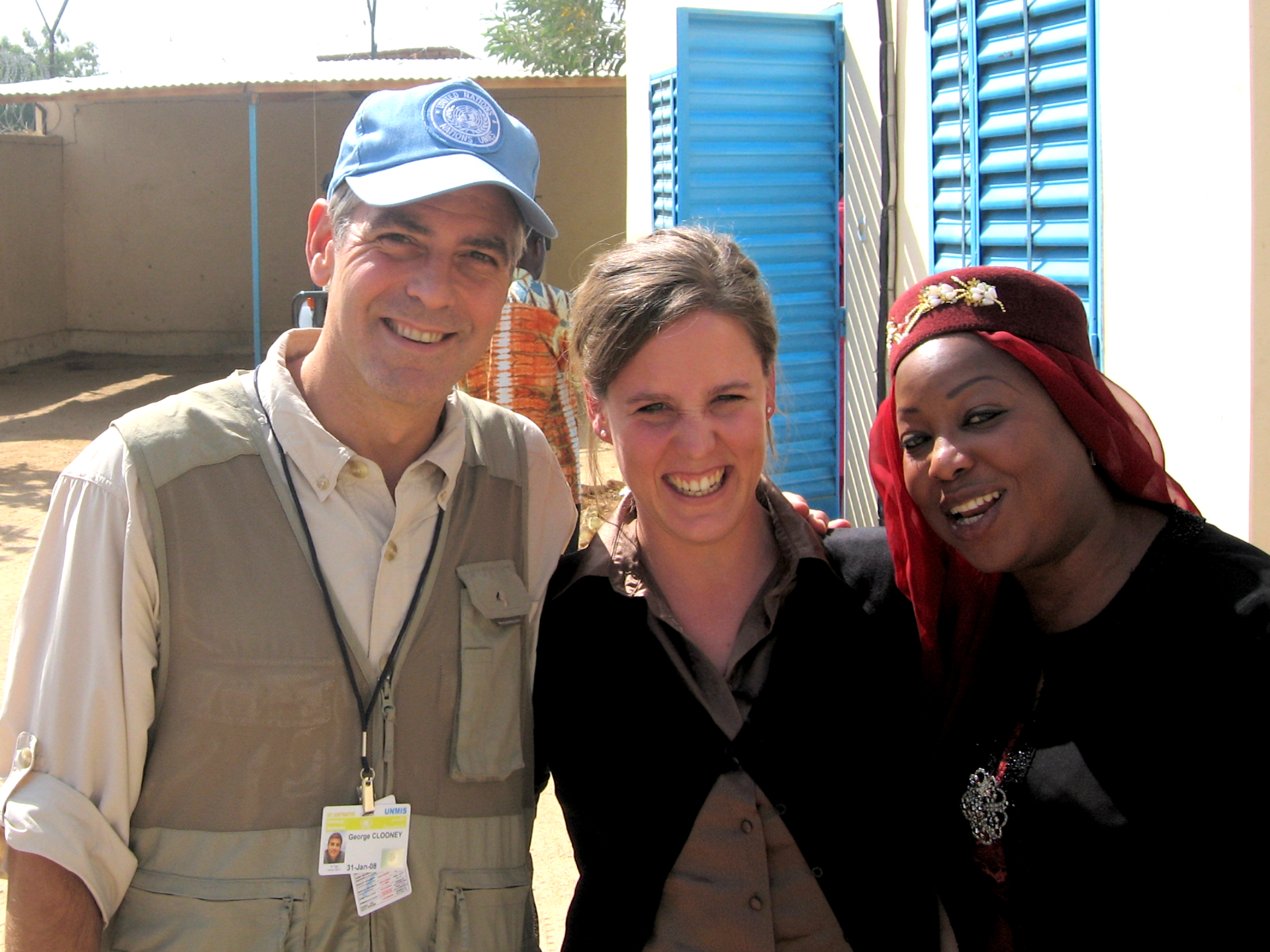 UN goodwill ambassador George Clooney with UN officials Fatma Samoura and Marie-Sophie Reck in Chad's eastern town of Abéché